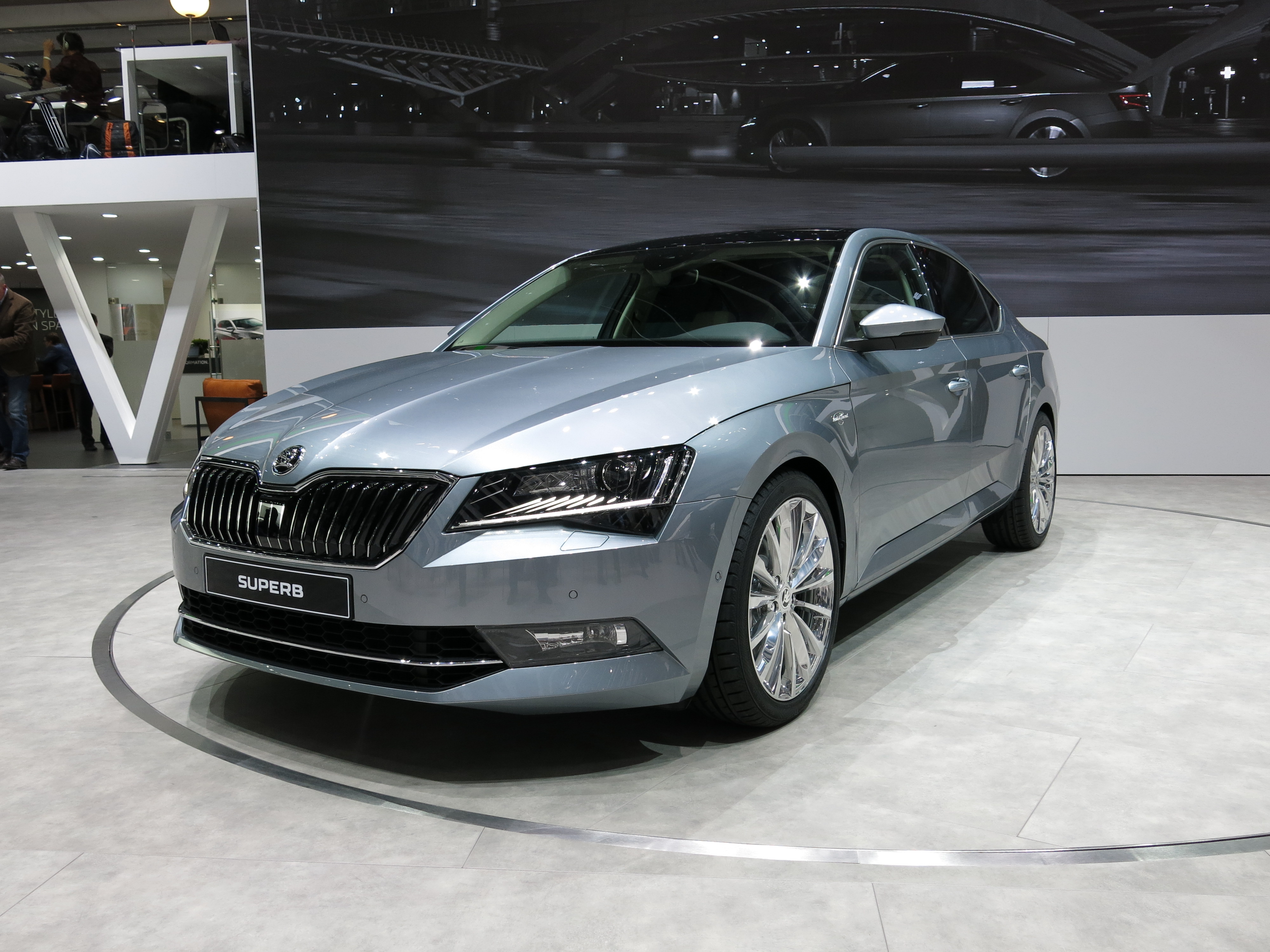 Geneva Motor Show 2015 (photo taken on the first press day)